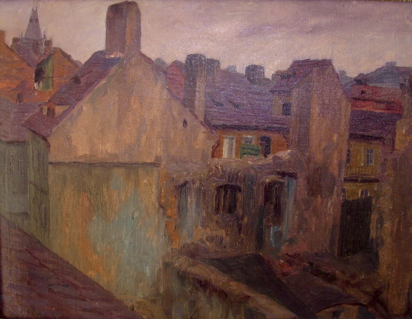 Oil painting of Prague’s Jewish quarter by Czech painter Stanislav Feikl